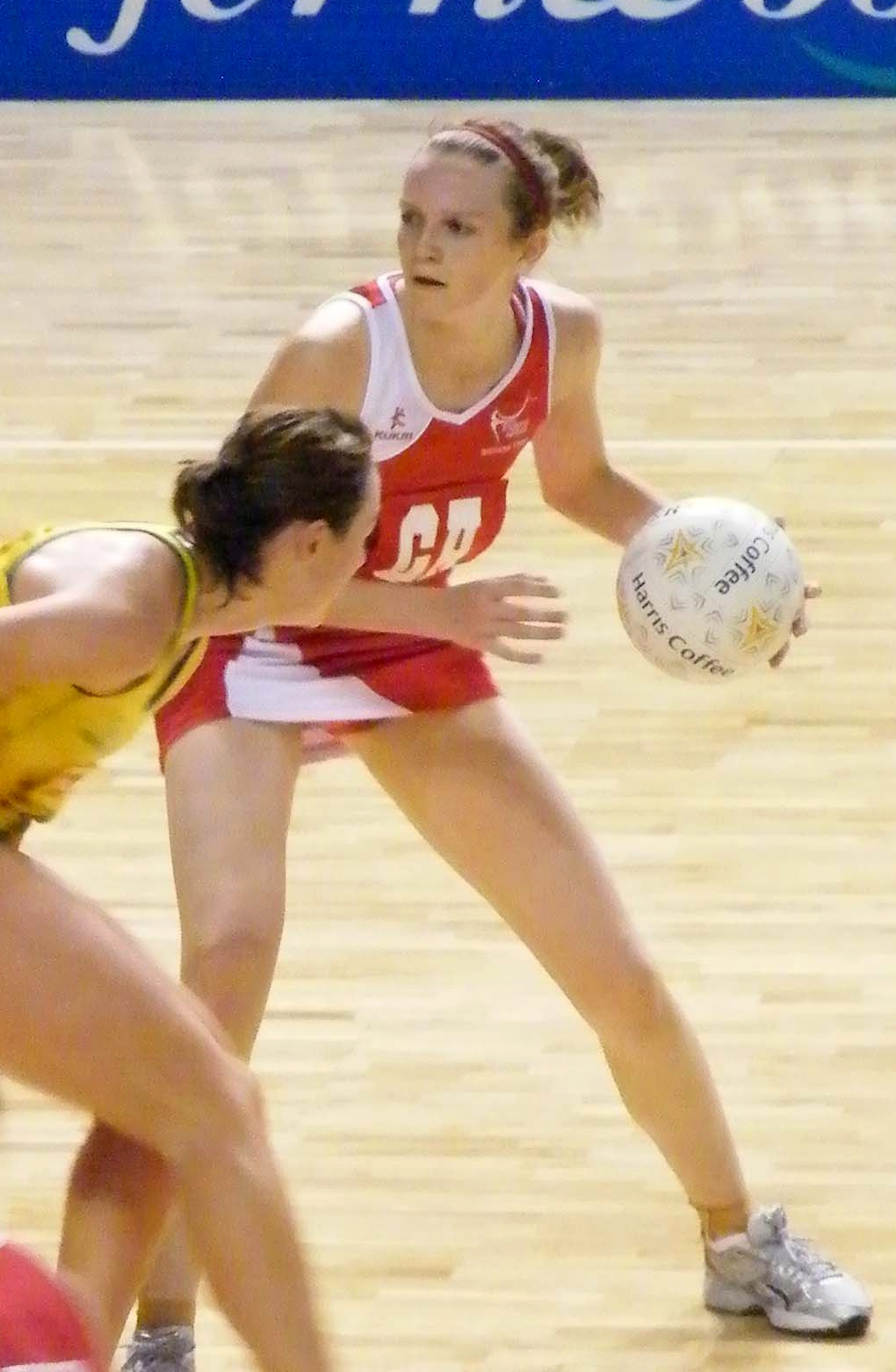 Australia v England - Netball Test - Adelaide, October 2008.